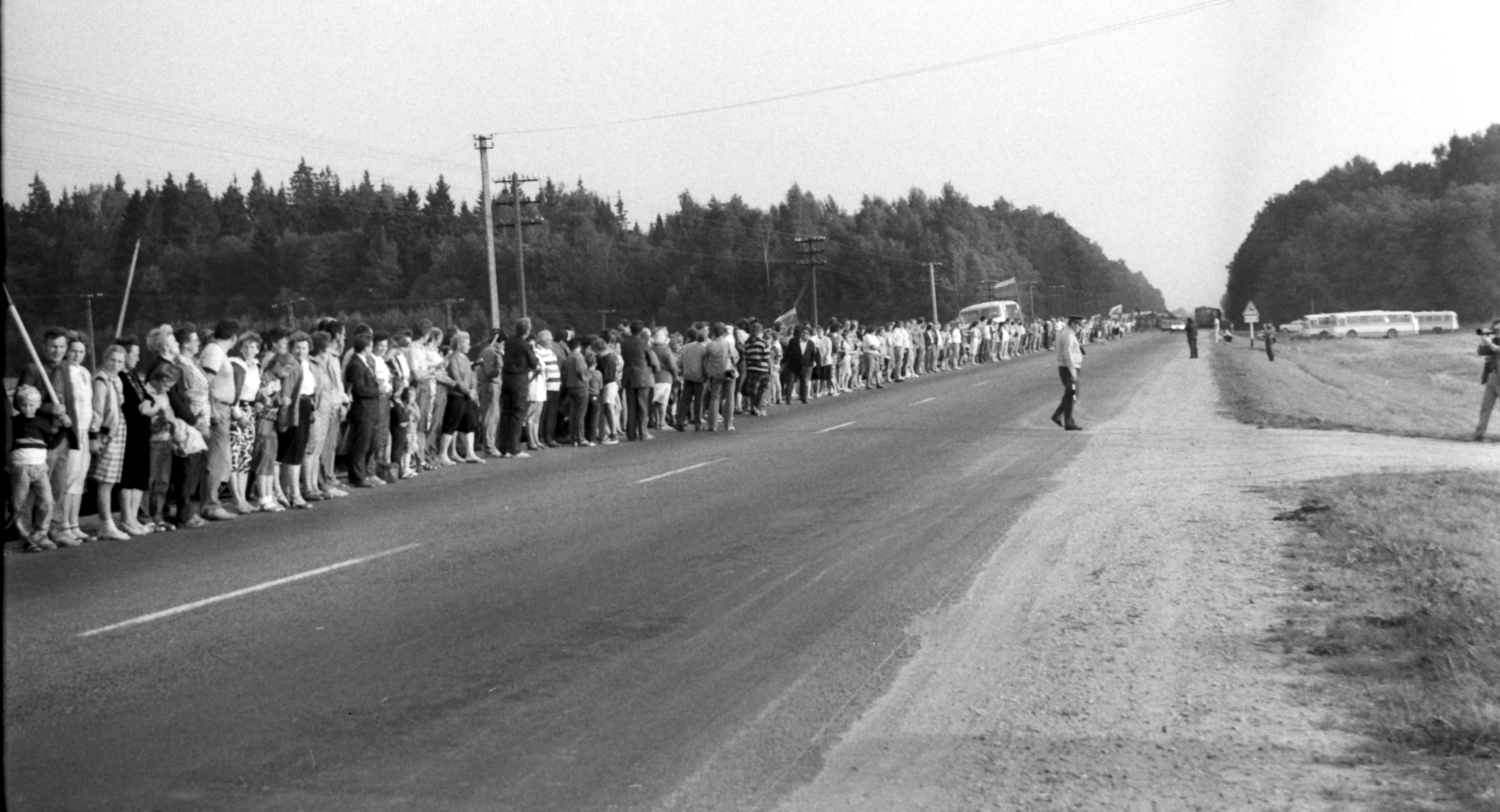 Baltic Way, Lithuania.